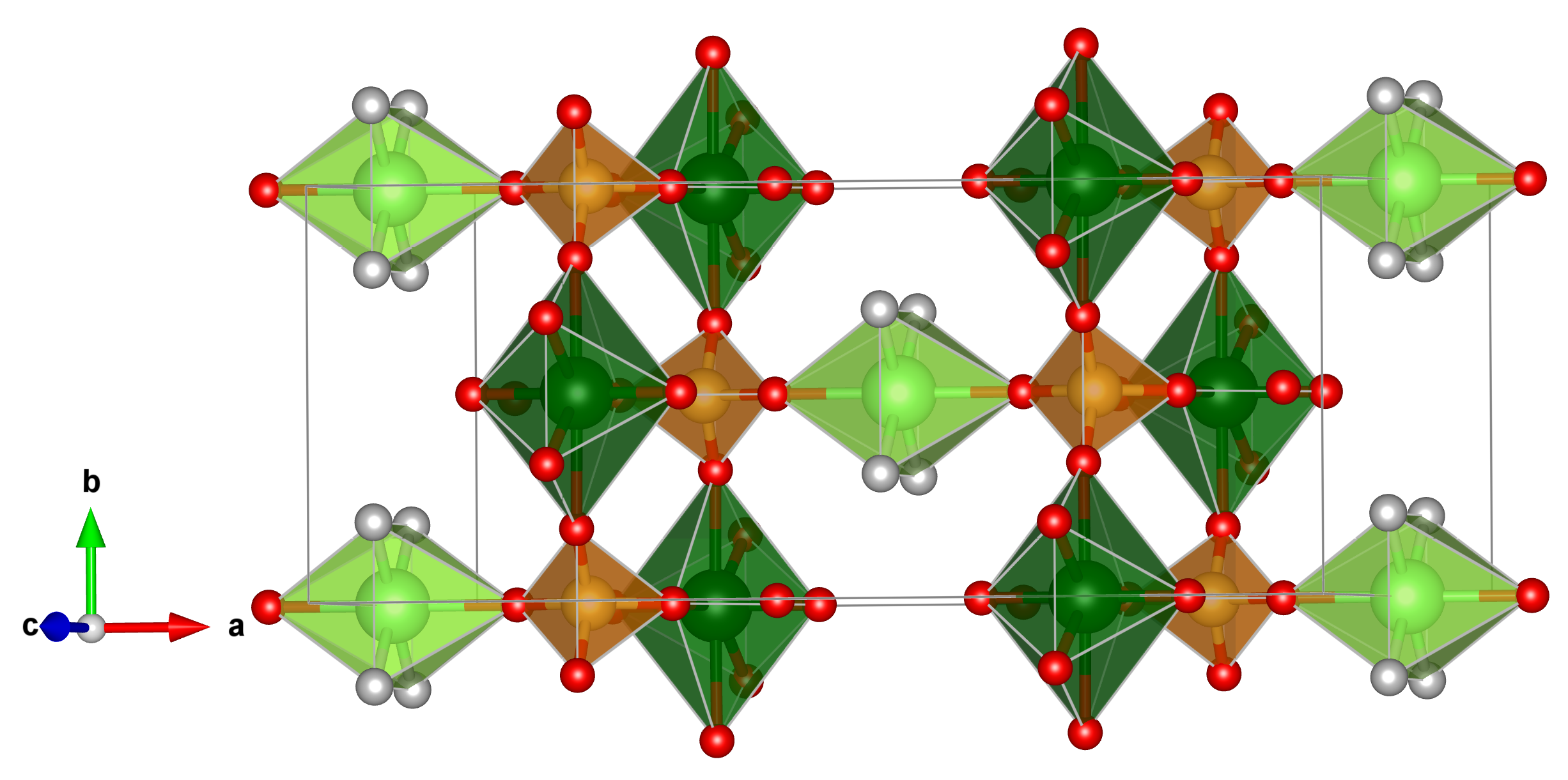 Unit cell of sklodowskite (Uranium: dark green, Silicon: bronze, Magnesium: light green, Oxygen: rot, Water molecules: hellgrau)